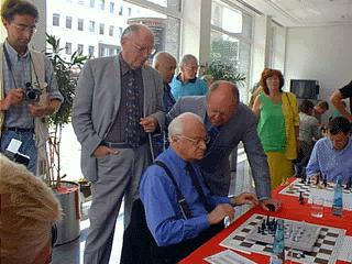 Ephraim Kishon at a simultaneous game of chess by Vladimir Kramnik, Dortmund 2001, left at the back of Kishon the President of the German Chess Federation (Alfred Schlya), Photographer Gerhard Hund.